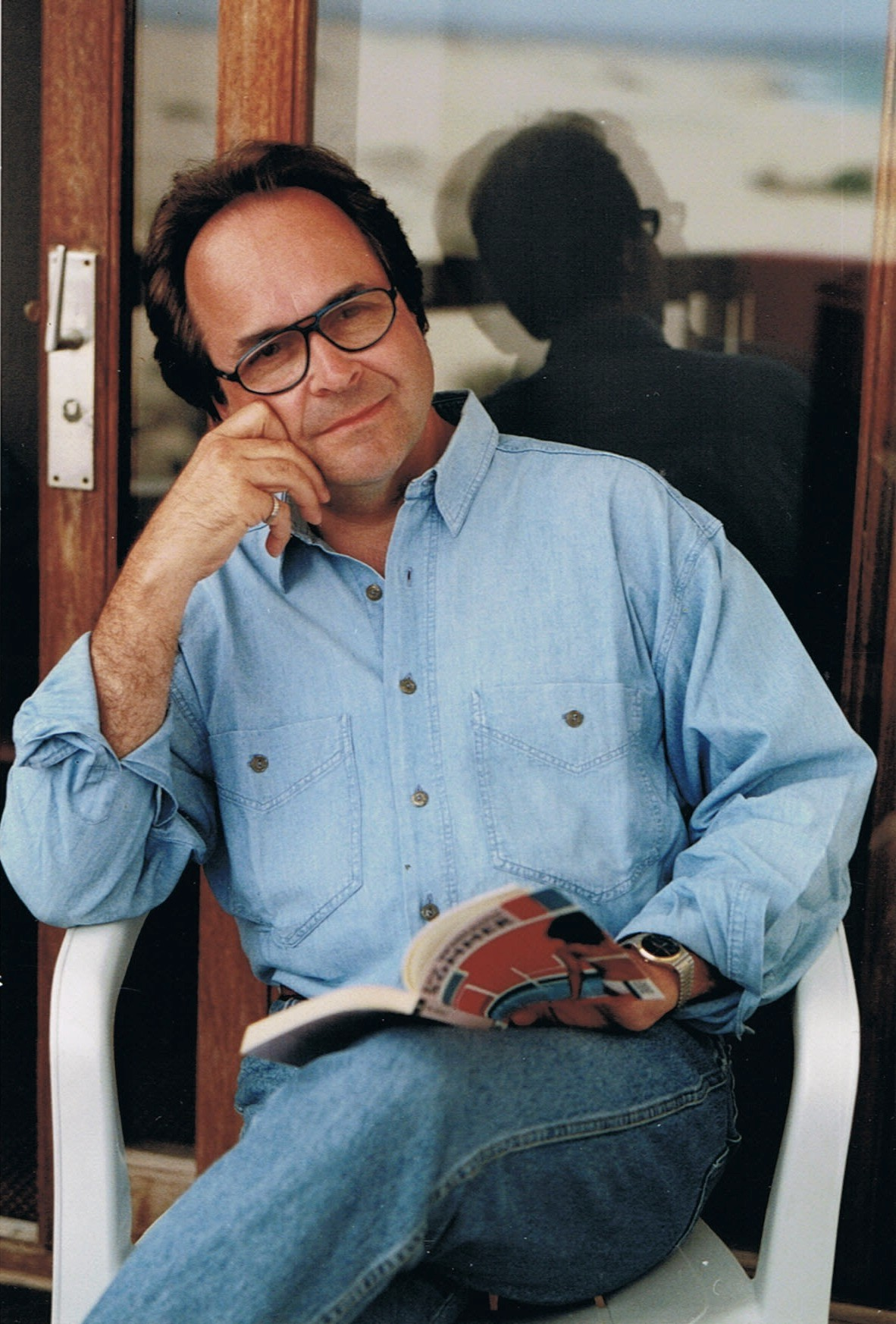 Author Jan Turovski, Bonn - Germany